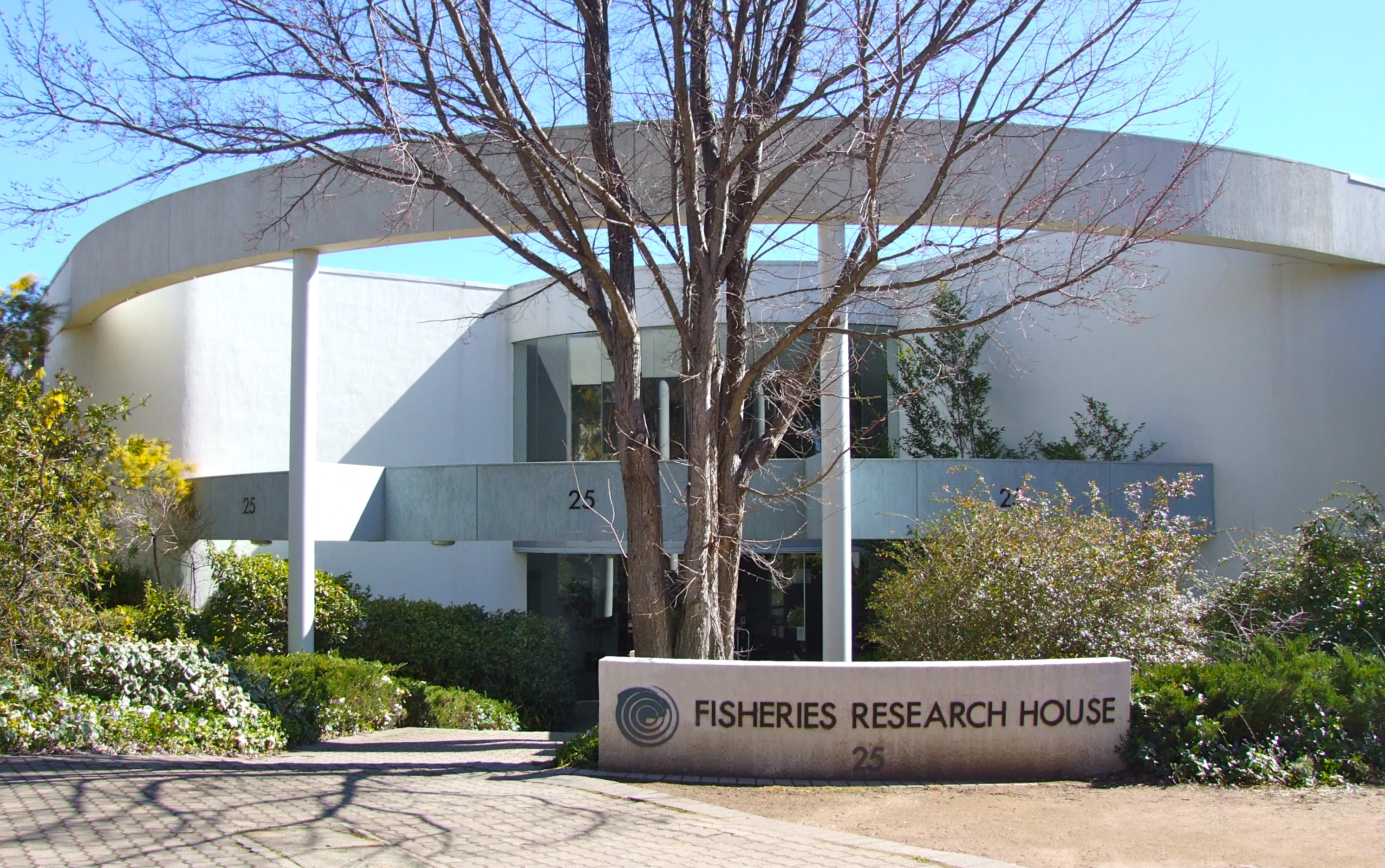 Entrance to Fisheries Research House, 25 Geils Court, Deakin West 2600, Australian Capital Territory, Australia -- home of the Fisheries Research and Development Corporation.